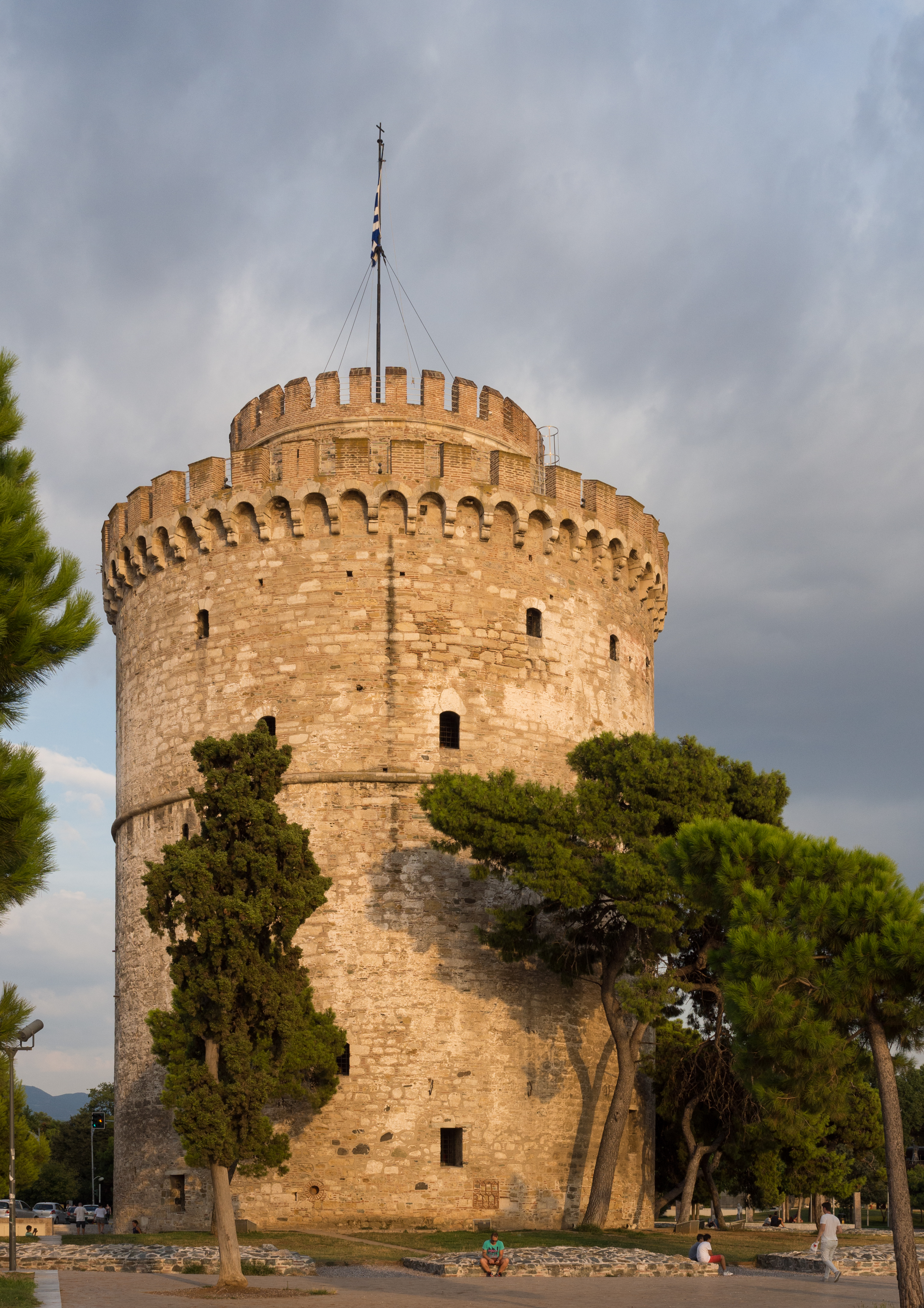 The White Tower in Thessaloniki